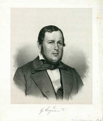 Just Georg Valdemar Aagaard (1811-1857), Danish jurist and politician, MP